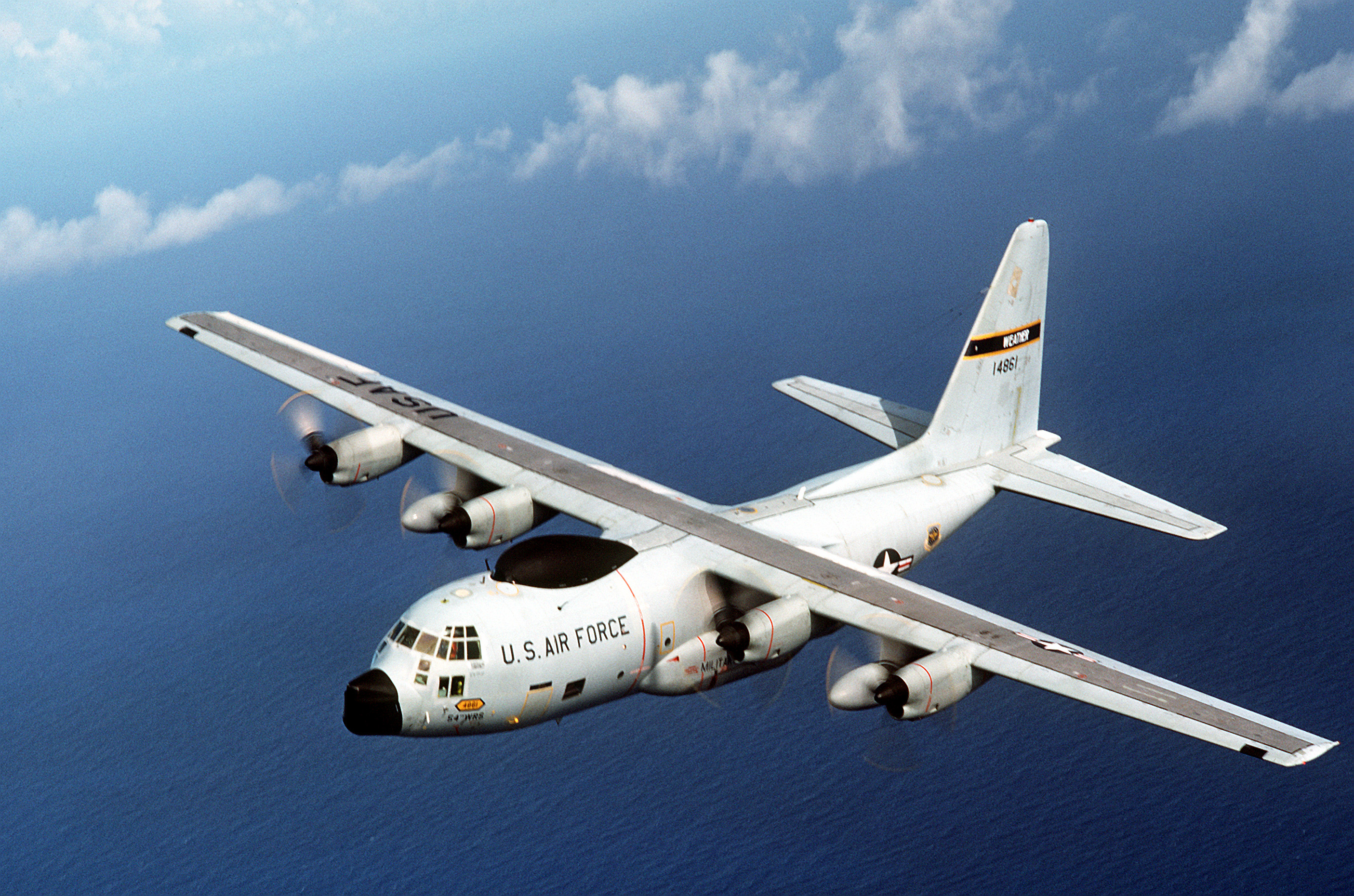 A U.S. Air Force Lockheed WC-130H-LM Hercules (s/n 64-14861) from the 54th Weather Reconnaissance Squadron on a mission over the Pacific near Guam to monitor and relay information on typhoons to the Joint Typhoon Warning Center (JTWC) on 1 July 1977.